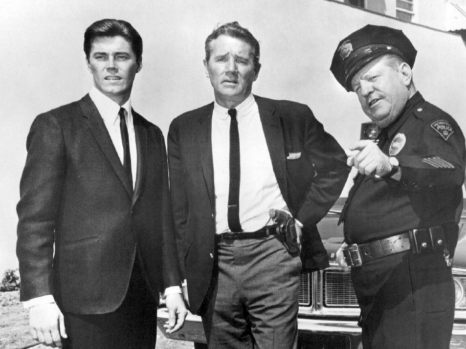 Photo of the cast of Felony Squad. From left-Dennis Cole, Howard Duff and Ben Alexander.